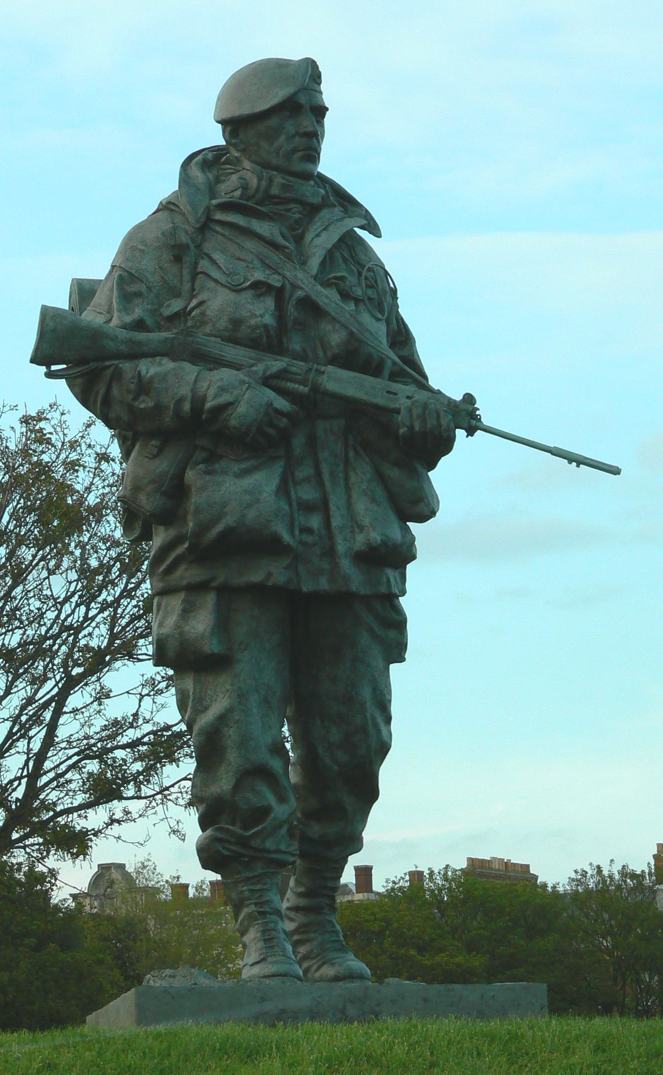 Statue of Royal Marine at the Museam on the sea front Southsea Portsmouth Hampshire. Based of photo of marine taken during Falklands conflict war